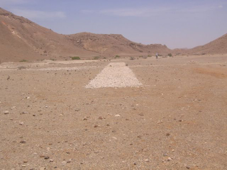 Galgala, Small Airport